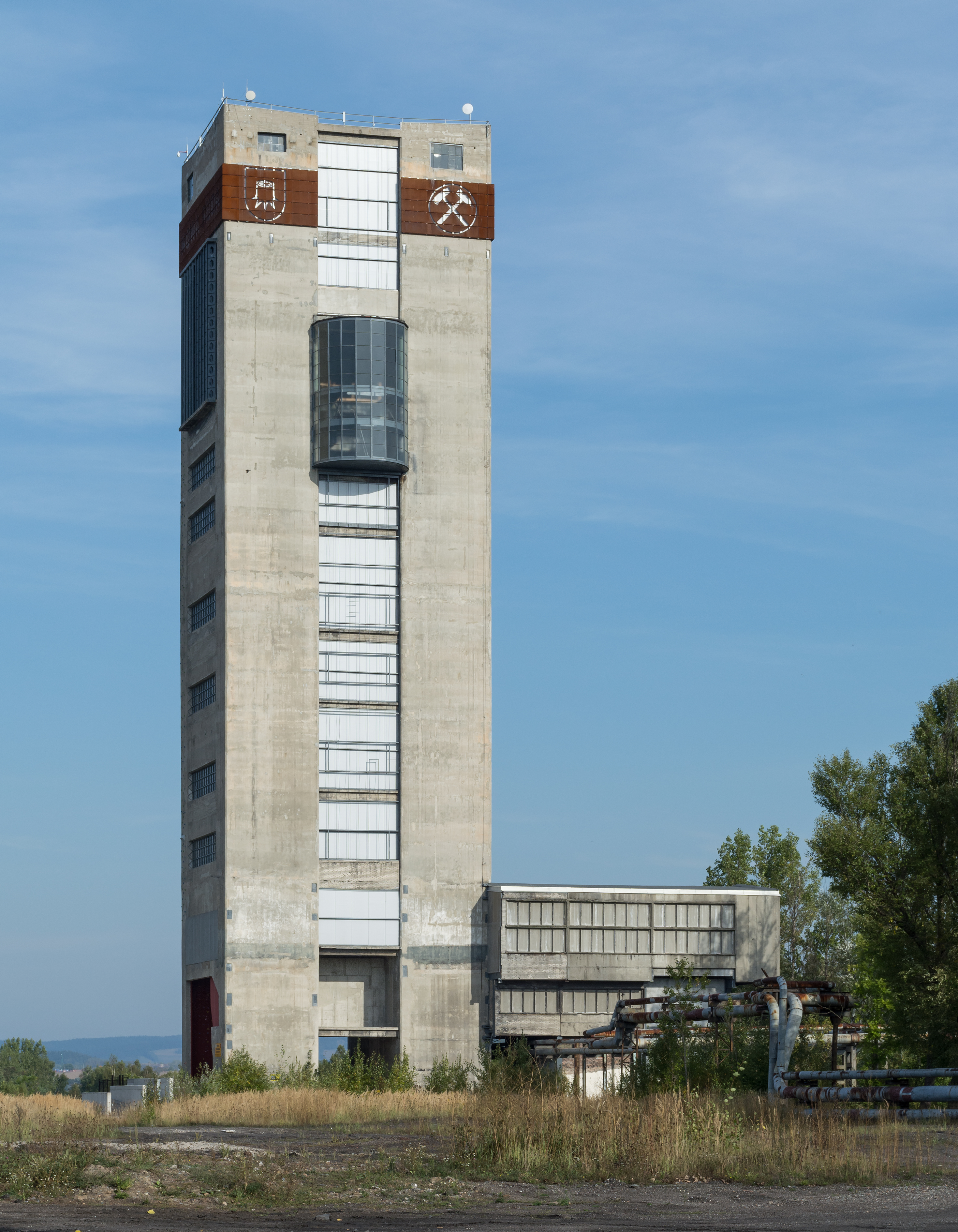 Tower shaft "Nowy" in the coal mine "Piast" in Nowa Ruda